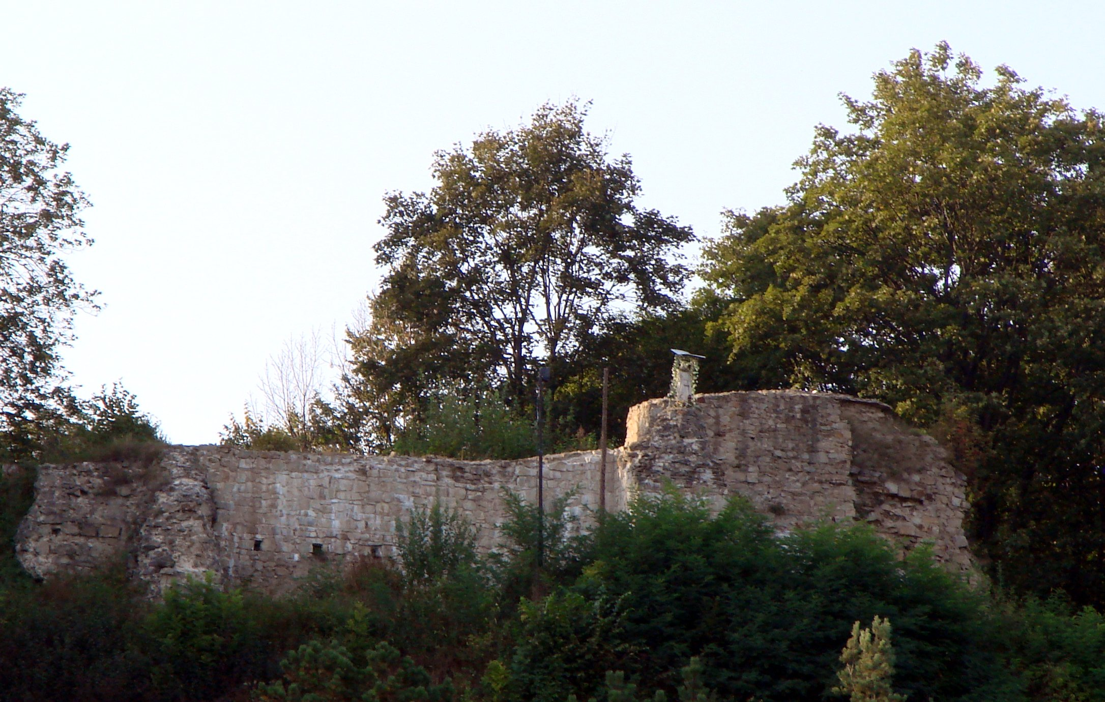 Ruins of castle in Muszyna, Poland